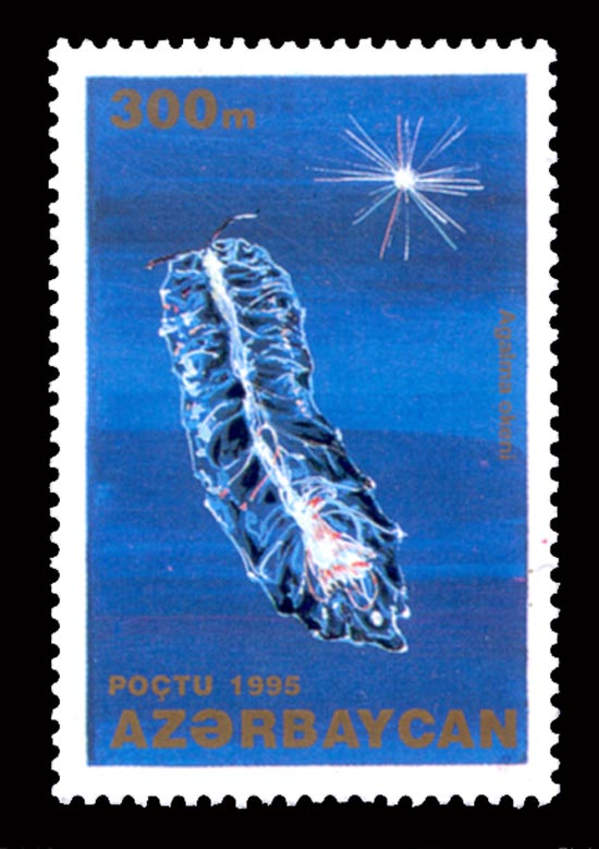 Stamp of Azerbaijan. Agalma okeni.